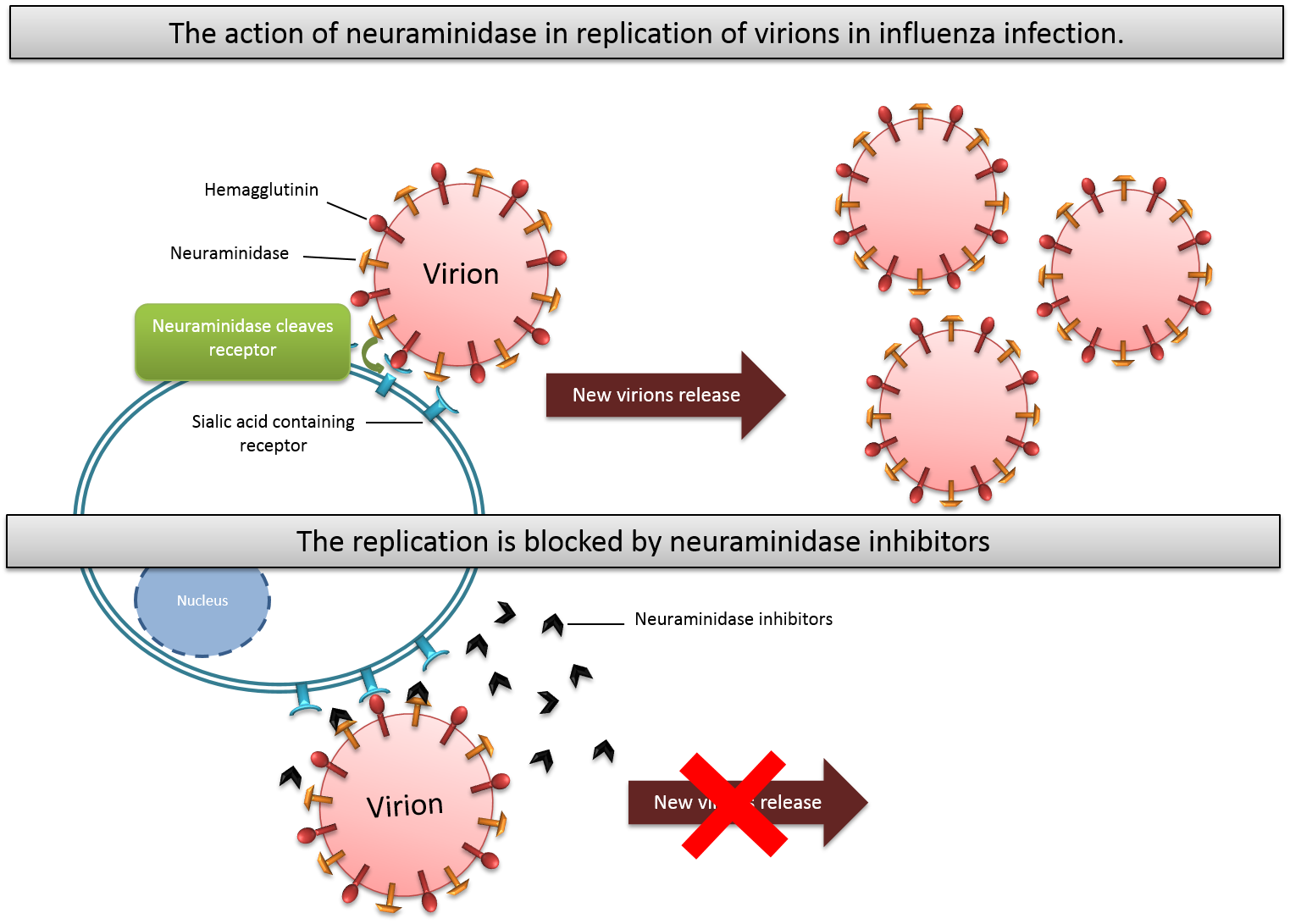 Machanism of Neuraminidase inhibitor